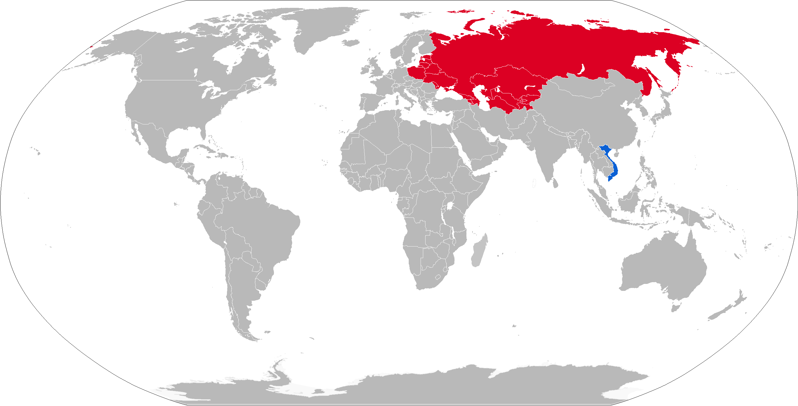 Map of former ASU-85 operators in red